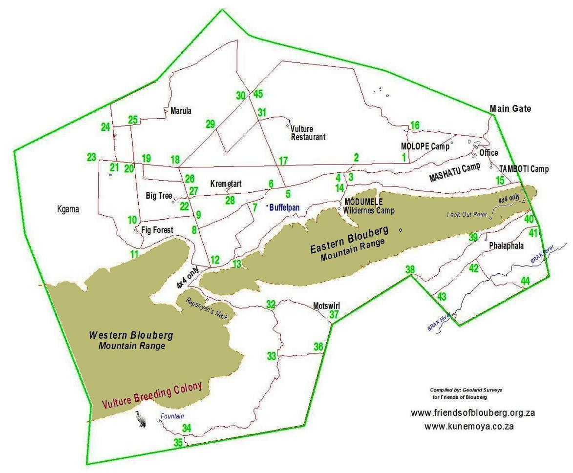 Map of Blouberg Nature Reserve in Limpopo province, South Africa